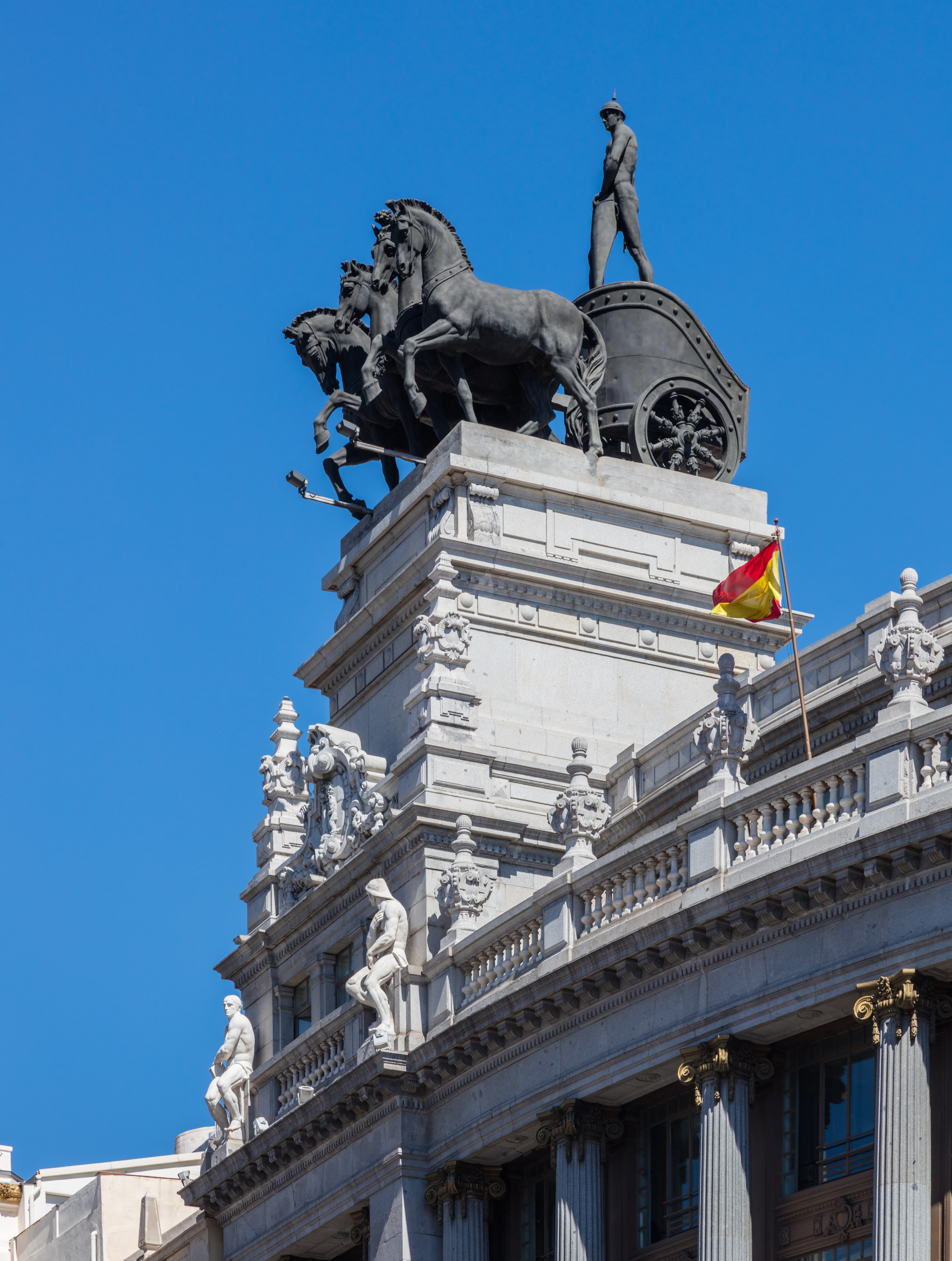 Quadriga on Bank of Bilbao building, Madrid, Spain